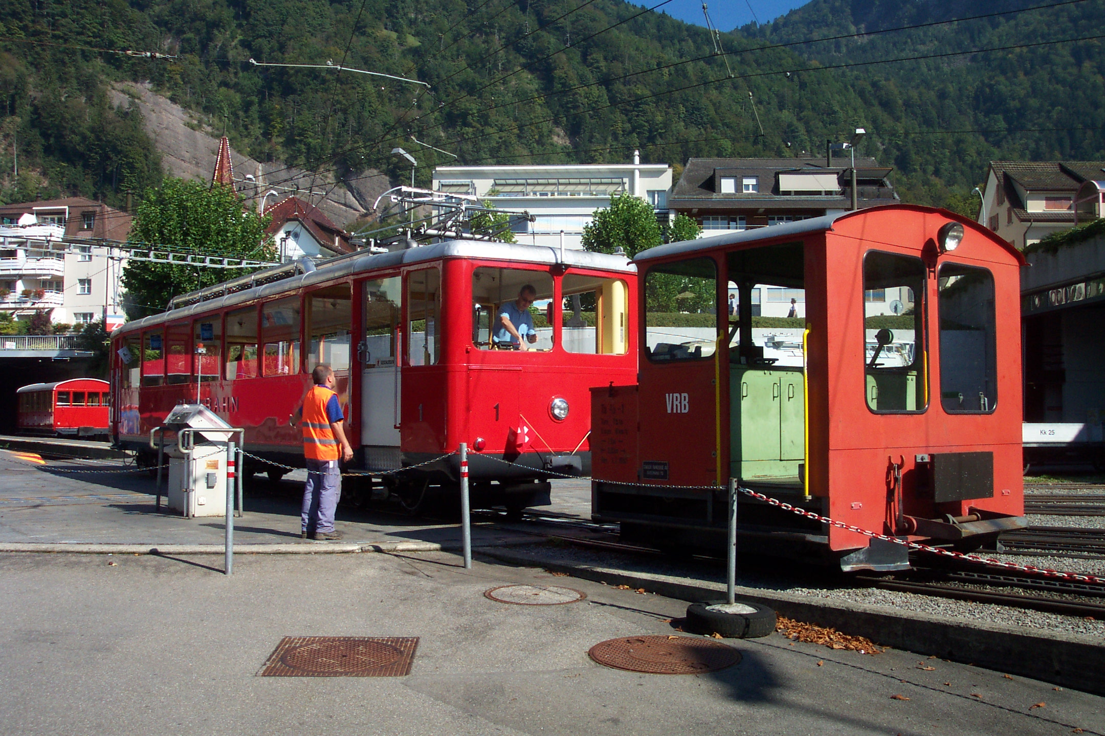 The Vitznau terminus of the Vitznau-Rigi Bahn in Switzerland, with motor-coach 1 and the battery-electric locomotive used for shunting the depot. For more information, see the Wikipedia article Rigi-Bahnen.